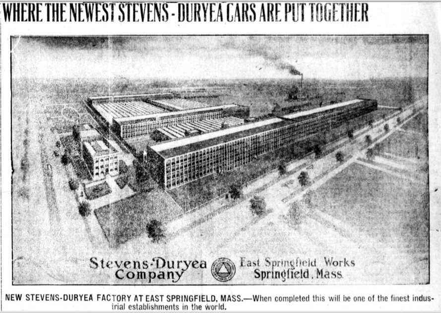 Newspaper ad showing the Stevens-Duryea plant in Springfield, Mass. The plant was sold to the New England Westinghouse Company in 1915 after the company hit hard times.